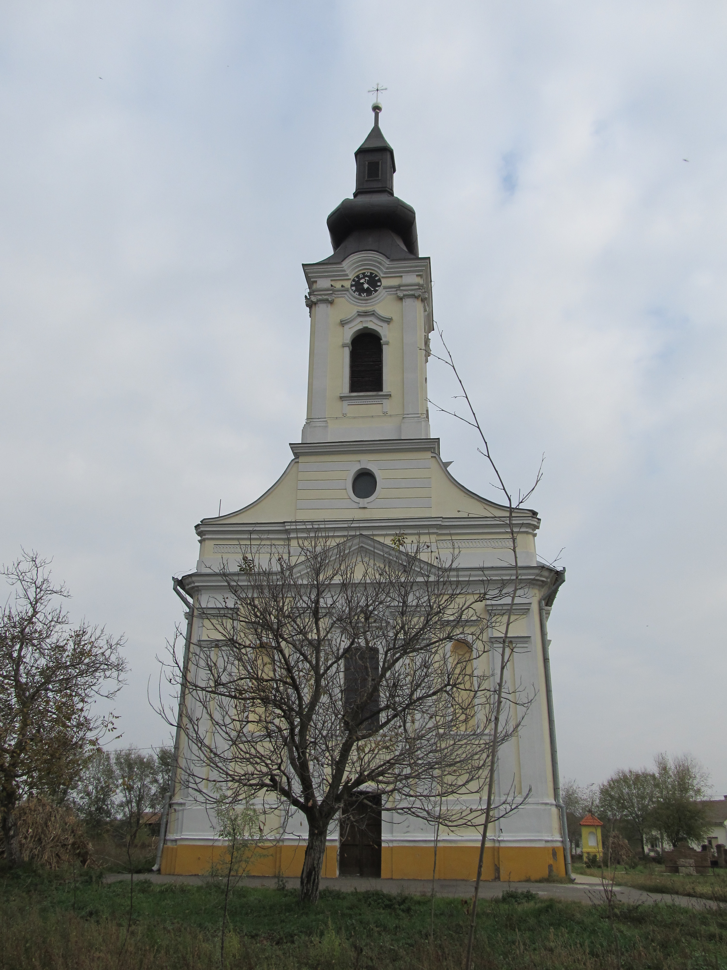 Serbian Orthodox church of Saint Nicholas in Neuzina